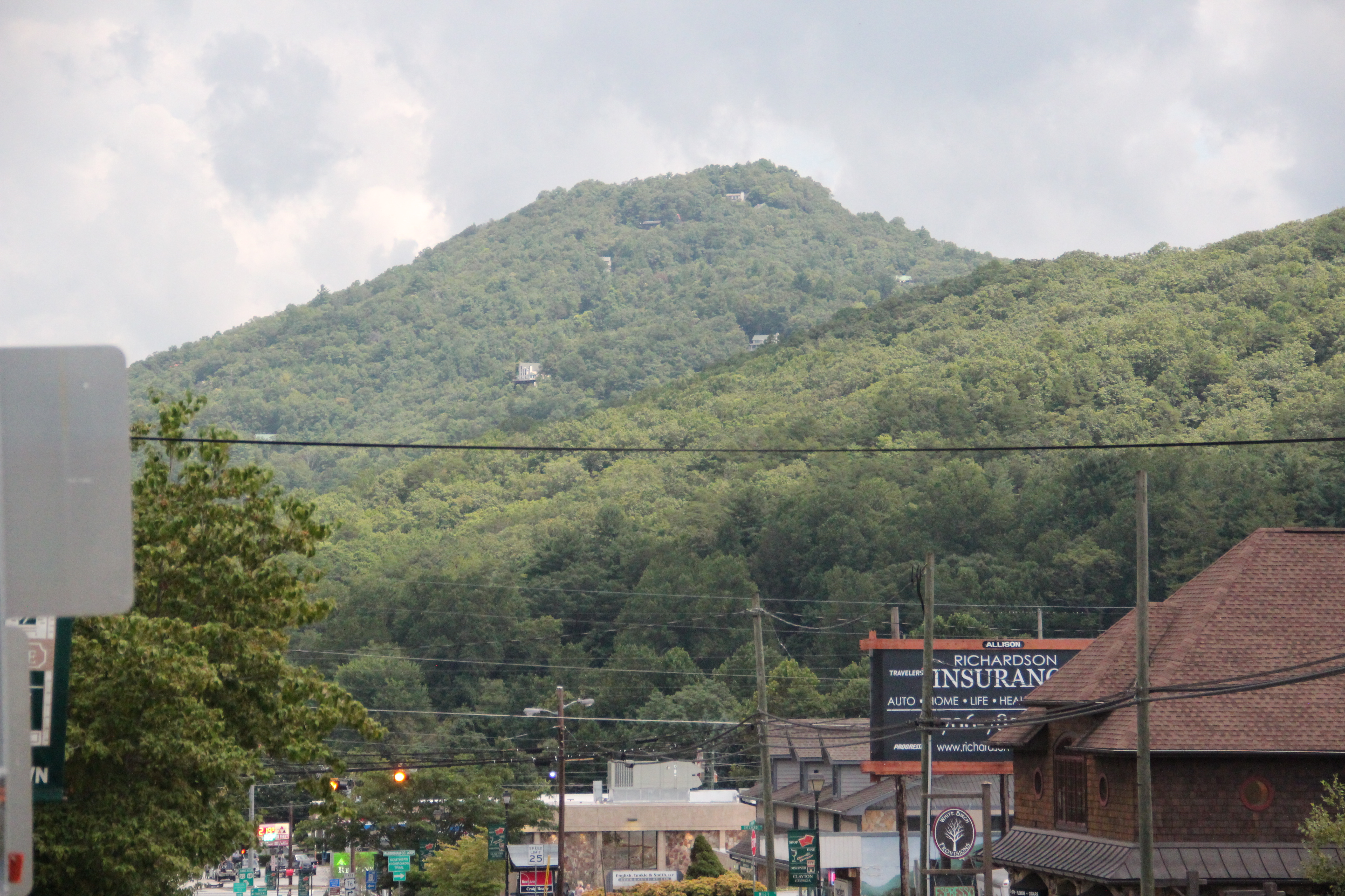 Screamer Mountain at 2:31pm, Aug 21, 2017